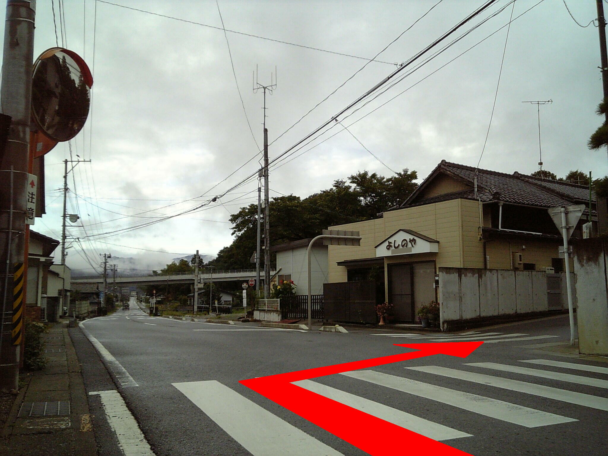 This photograph is the one that "One that No.399 in a general national road took No.41 on the Fukushima Prefecture road and the diverging point" was processed.